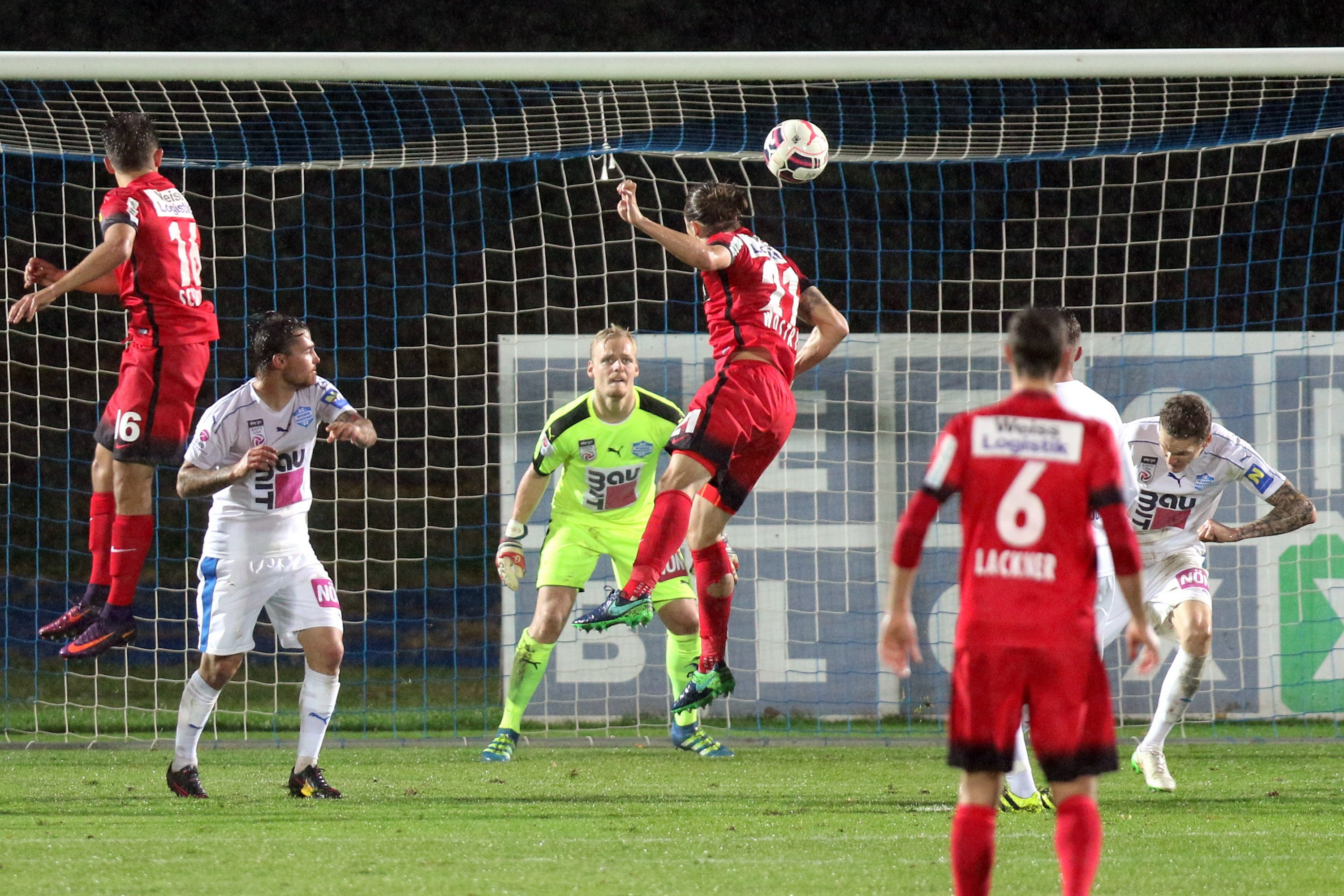 2016–17 Austrian Cup third round: SC Wiener Neustadt (white shirts) vs. FC Admira Wacker Mödling (red shirts) 1-3 (0-2) at 2016-10-25 in the Stadion in Wiener Neustadt — The photo shows Markus Wostry scoring the 0-3.